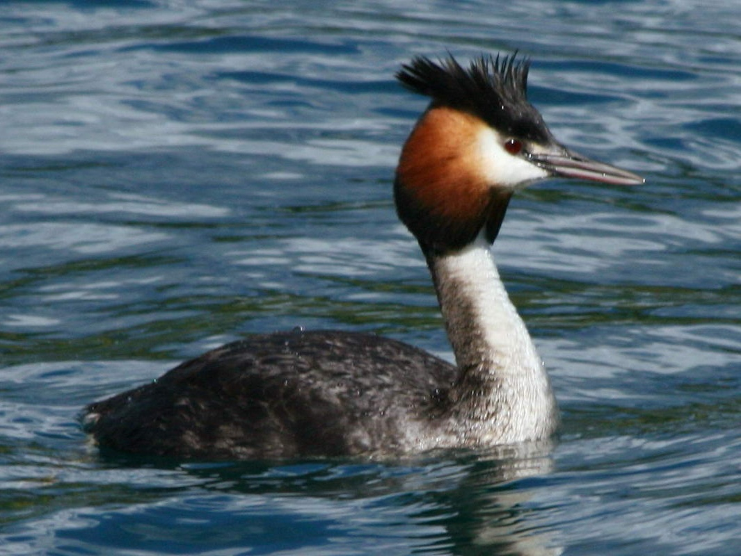 Great Crested Grebe Podiceps cristatus australis, New Zealand